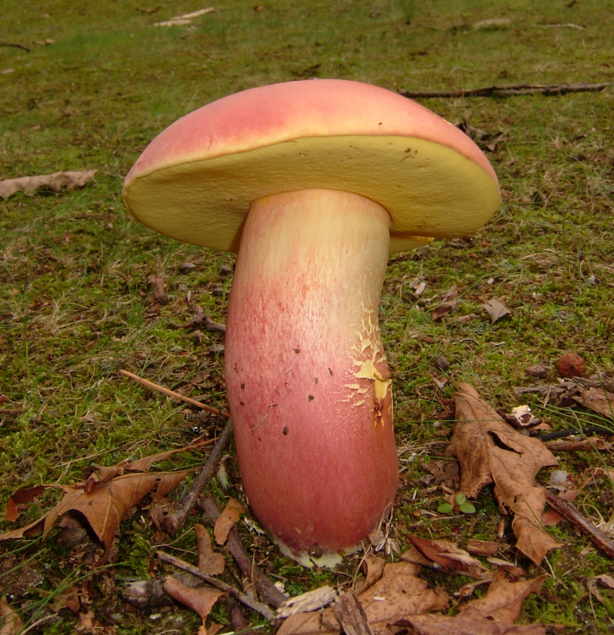 A fruitbody of the bolete fungus Boletus pallidoroseus. Photographed in Bernardsville, New Jersey, USA. Image location: Bernardsville, New Jersey, USA A single specimen growing under old oaks in grass/moss. Overall height = 13.5 cm; Cap diameter = 9.5 cm; Stipe thickness at apex = 4 cm, tapering down to 3 cm. Recognized by sight For more information about this, see the observation page at Mushroom Observer.